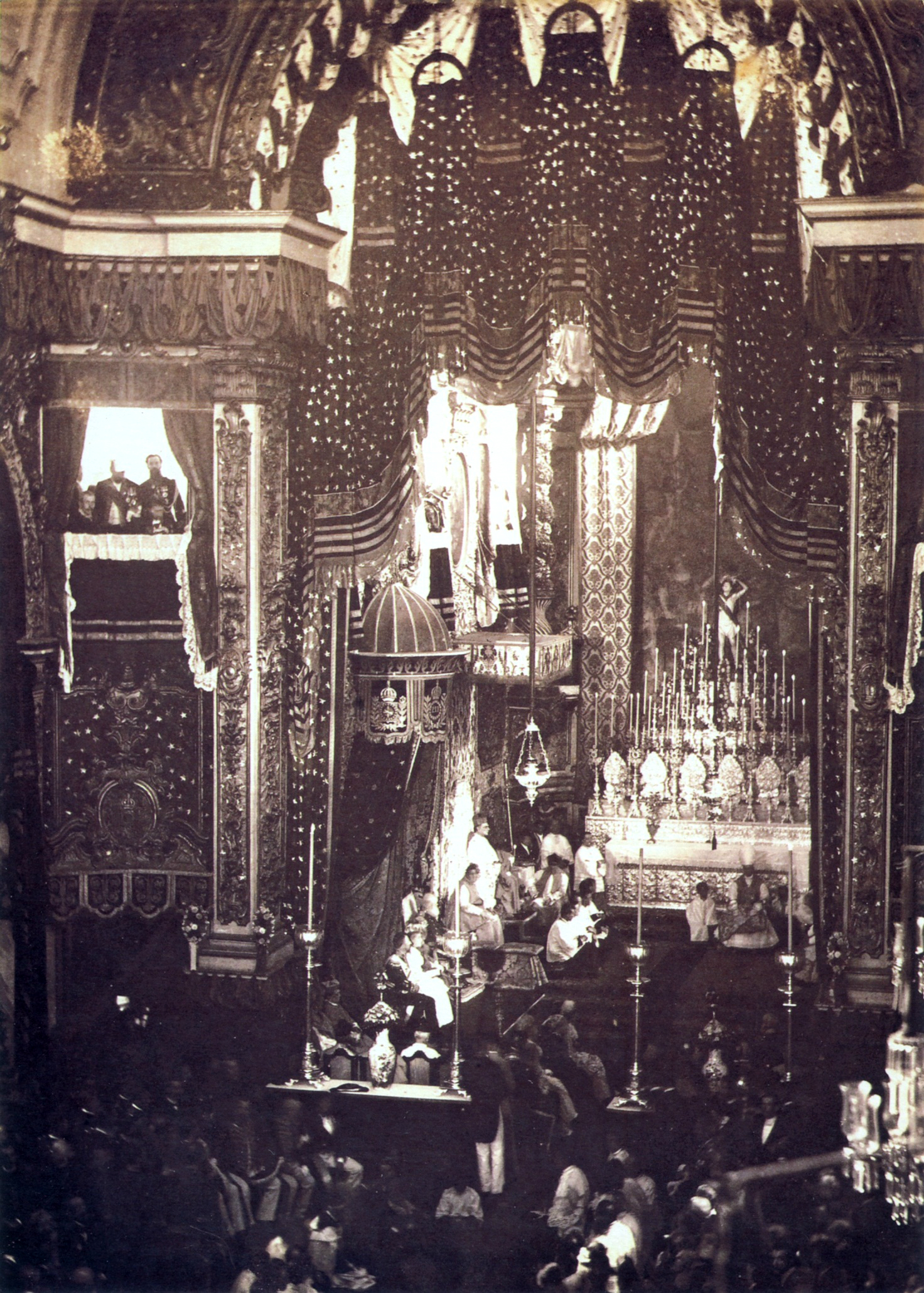 Acclamation of Princess Isabel of Brazil as regent of the Empire, 1887.